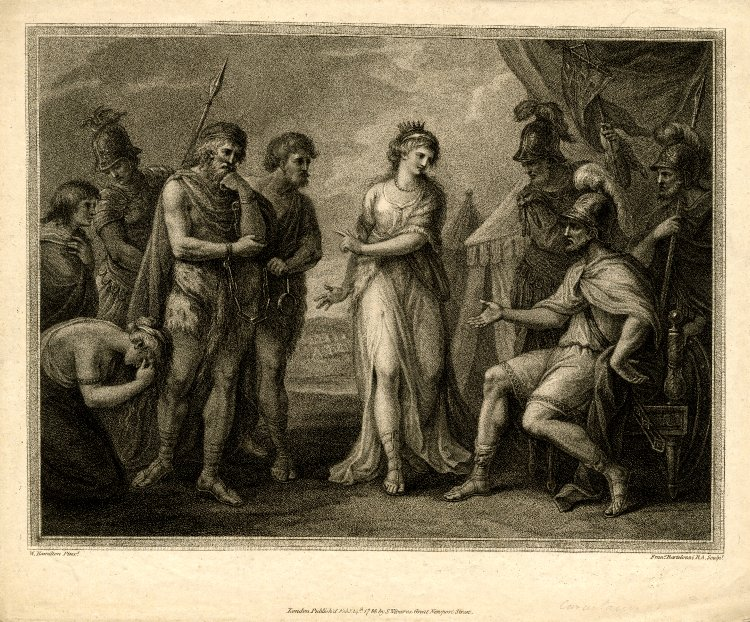 Caractacus, King of the Silures, deliver'd up to Ostorius, the Roman General, by Cartismandua, Queen of the Brigantes. Francesco Bartolozzi (publisher/printer; printmaker; Italian; British; Male; 1728 - 1815), first published by Susanna Vivares (publisher/printer; British; Female; 1781 - 1797; fl.)